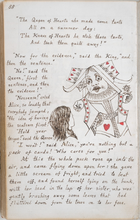 A handwritten page of the original manuscript of Alice's Adventures Under Ground, illustrated by the author. Held and digitised by the British Library.